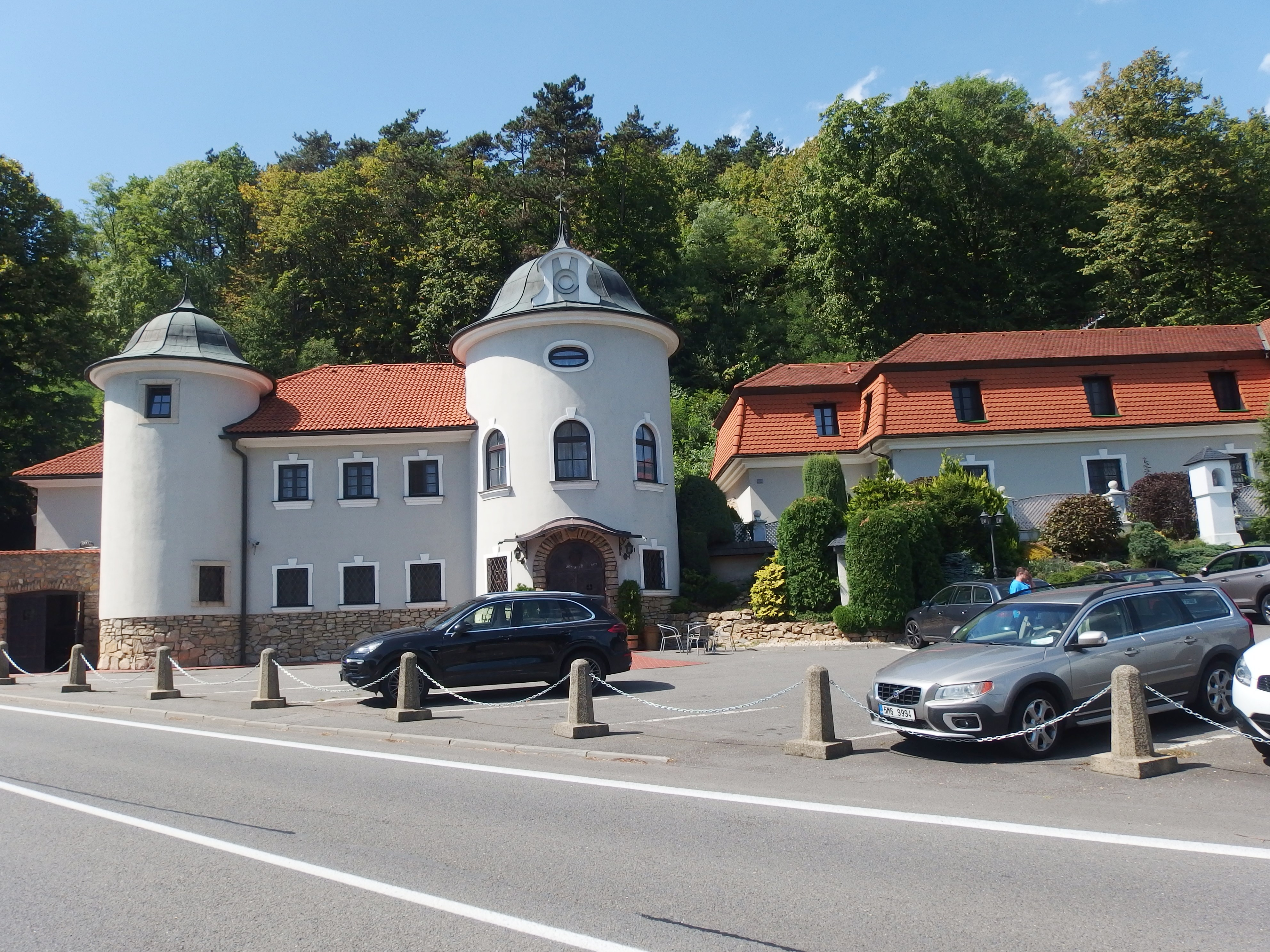 Starý Jičín, Nový Jičín District, Czech Republic.